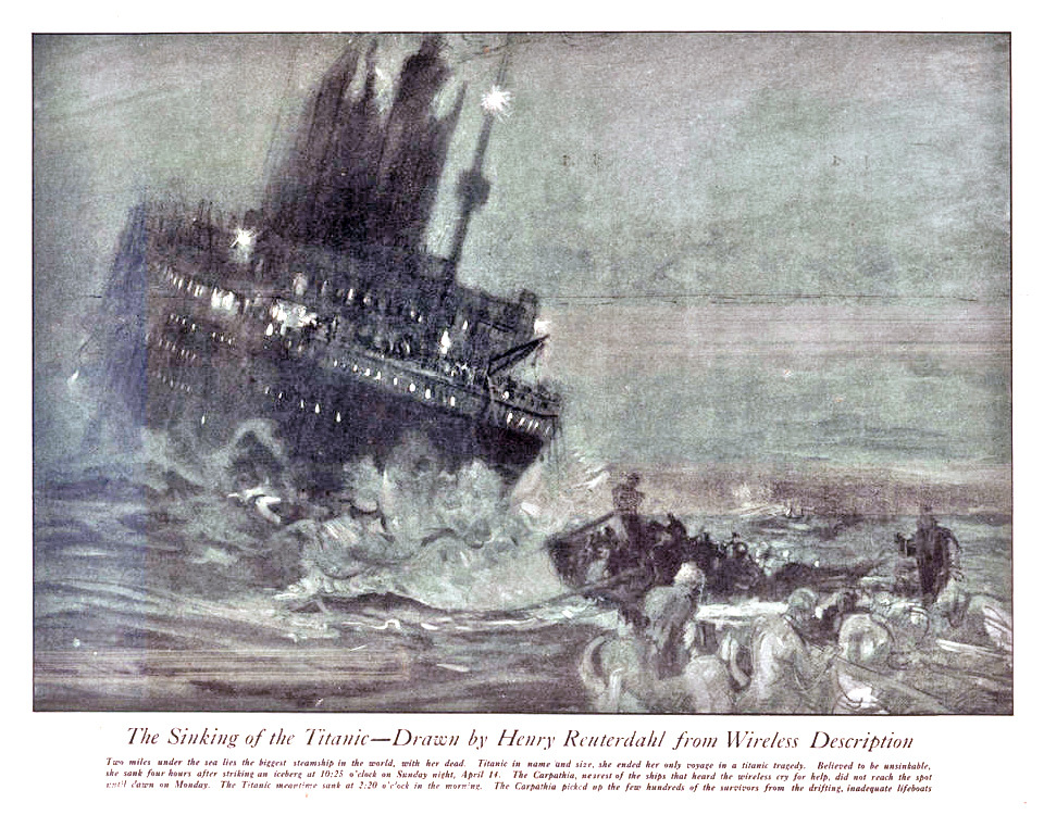 drawn from wireless description